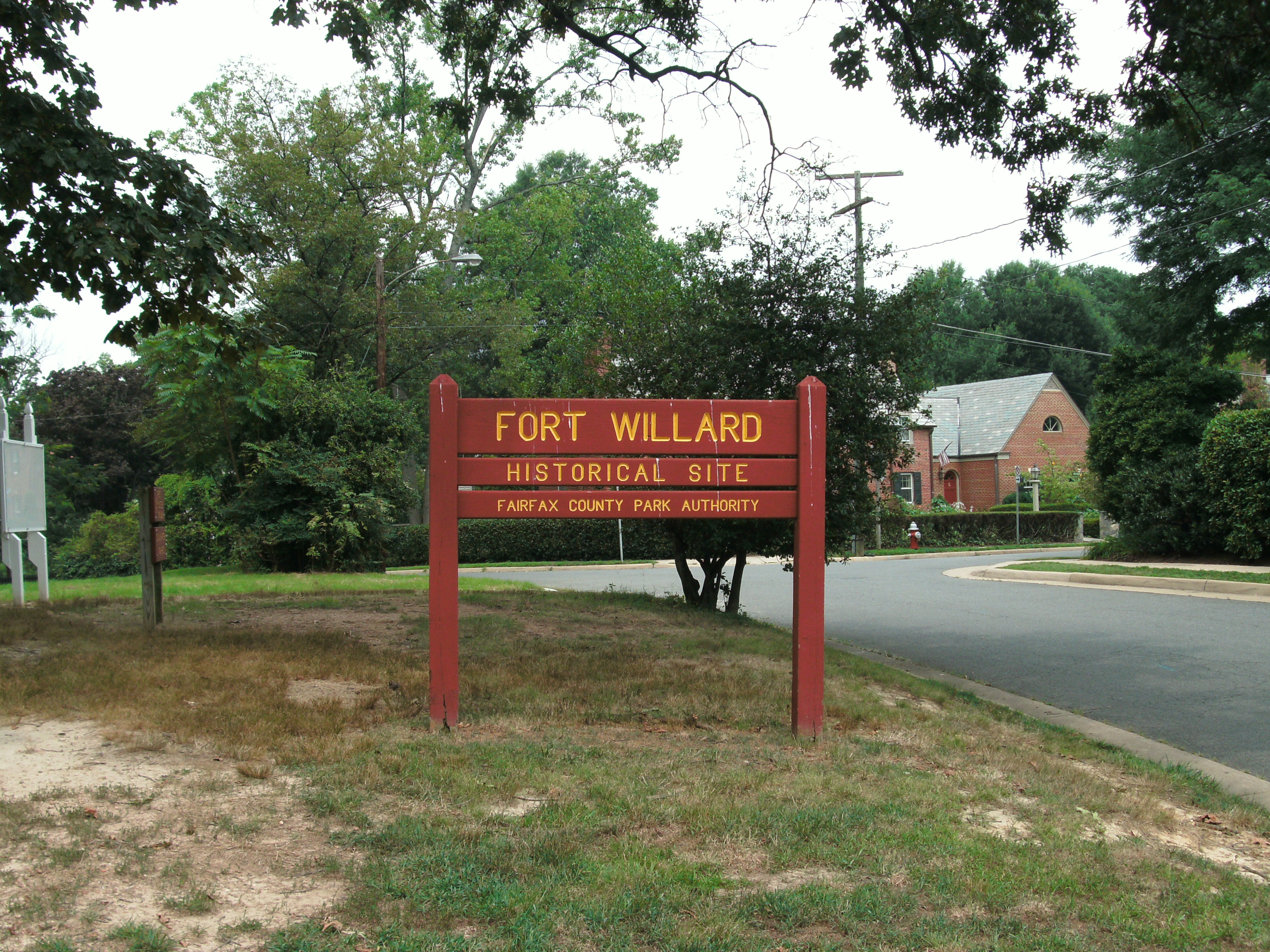 Fairfax County, VA GEDSC DIGITAL CAMERA